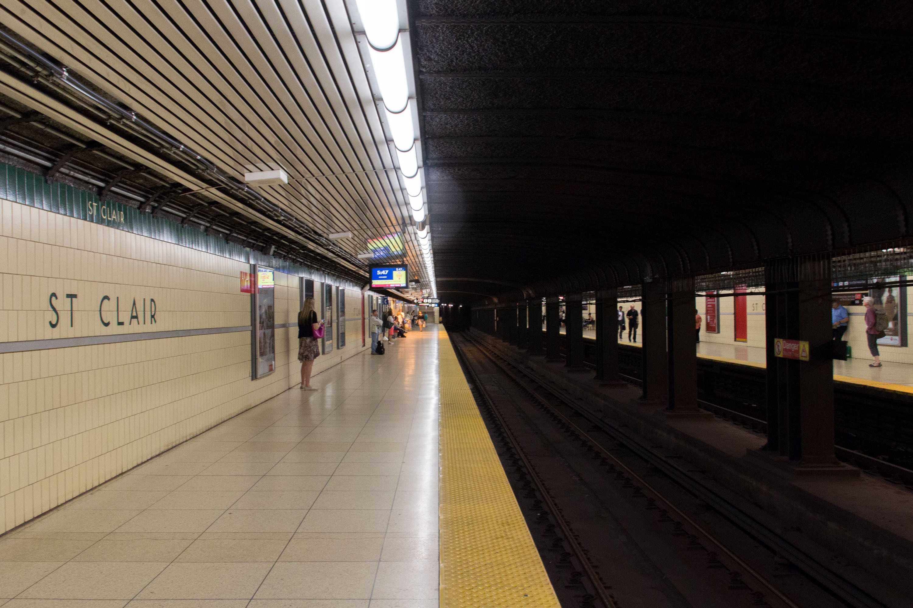 St. Clair Platform